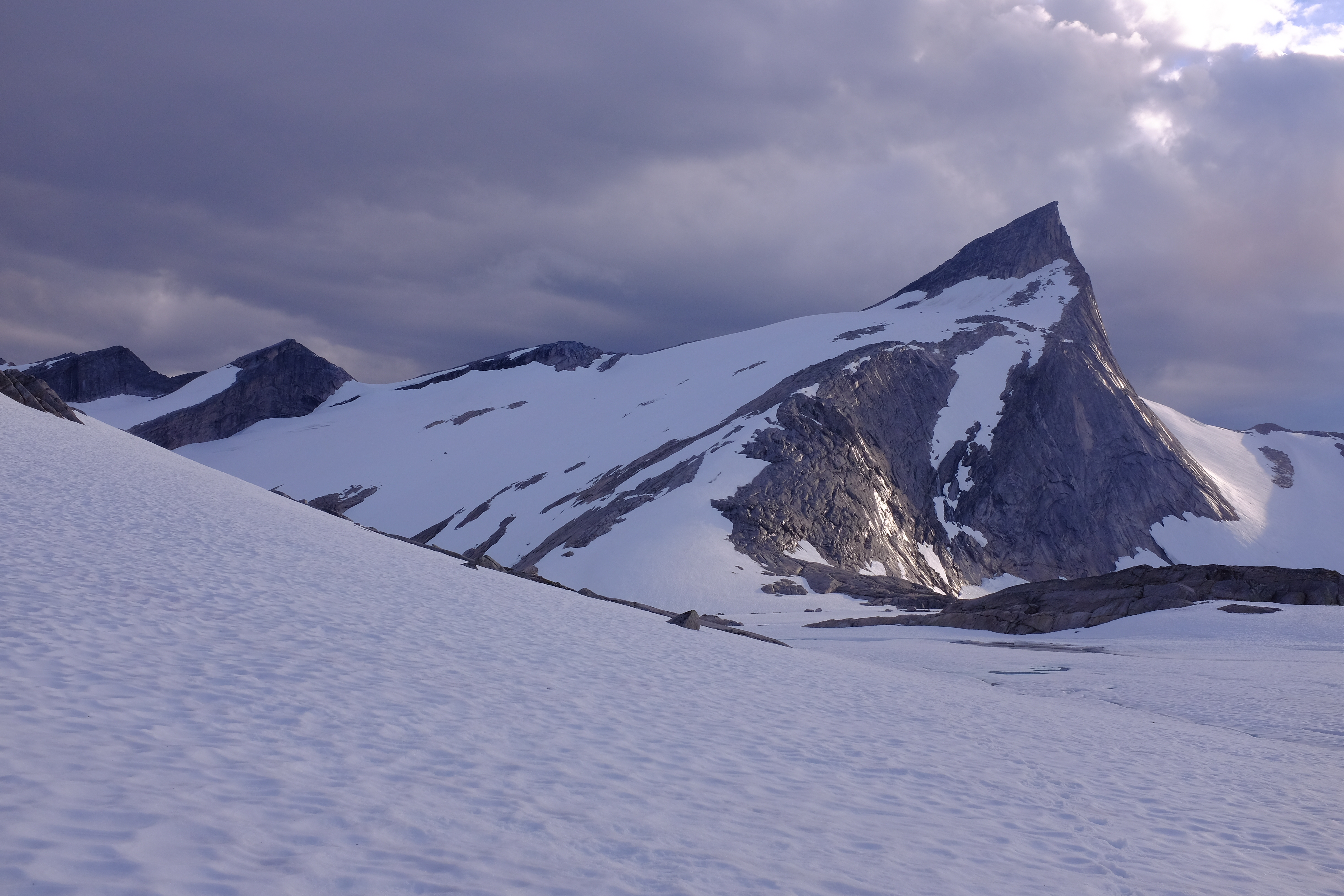 Gasskatjåhkkå the highest point in Hamarøy municipality, and marks the border with Sørfold municipality in the south. Nordland, Norway.